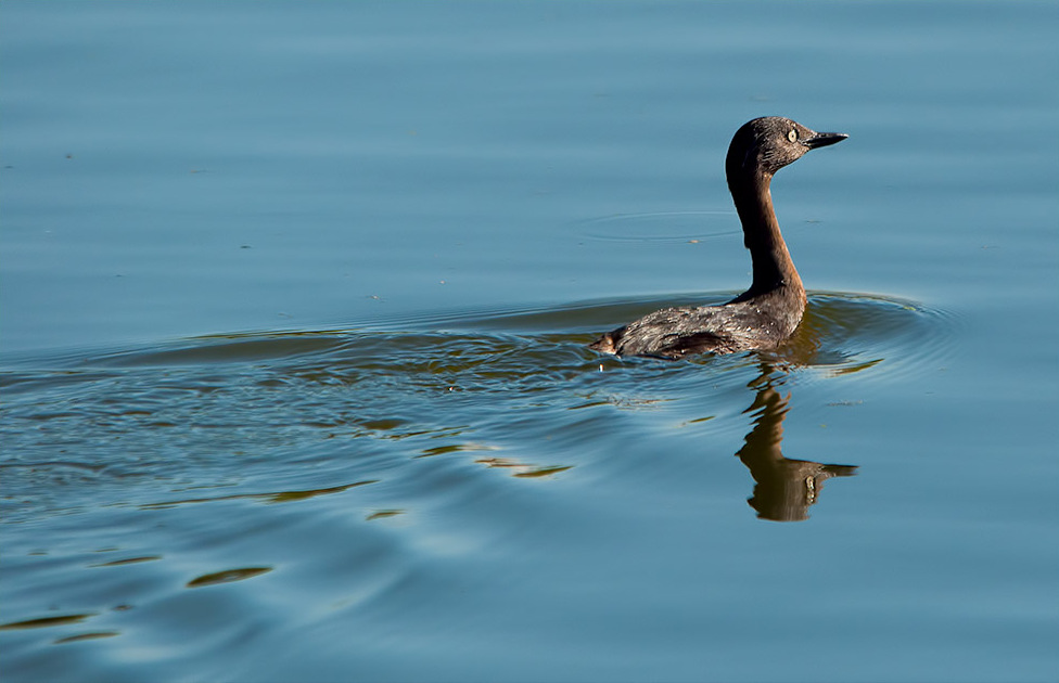 New Zealand dabchick – weiweia The small endemic dabchick (Poliocephalus rufopectus) has a total population of 1,700 birds, scattered around the North Island and just a few South Island lakes. The bird is shy and secretive. Like other grebes, it builds a floating nest, anchored to reeds or overhanging branches. The New Zealand dabchick is about 29 centimetres long and weighs 250 grams. Its head is streaked with fine silver feathers. If disturbed, dabchicks either skitter rapidly across the water, or sink, leaving just the head exposed. Dabchick man Feeding Foods include aquatic insects and larvae such as waterboatmen and dragonflies, and freshwater snails, crayfish and small fish. Dabchicks search for food underwater, sometimes starting their dive with a forward leap. They also feed on the surface, dipping their head underwater and sweeping it from side to side. They sometimes snatch flying insects.